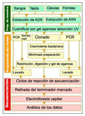 Sequencing Workflow (Spanish version)